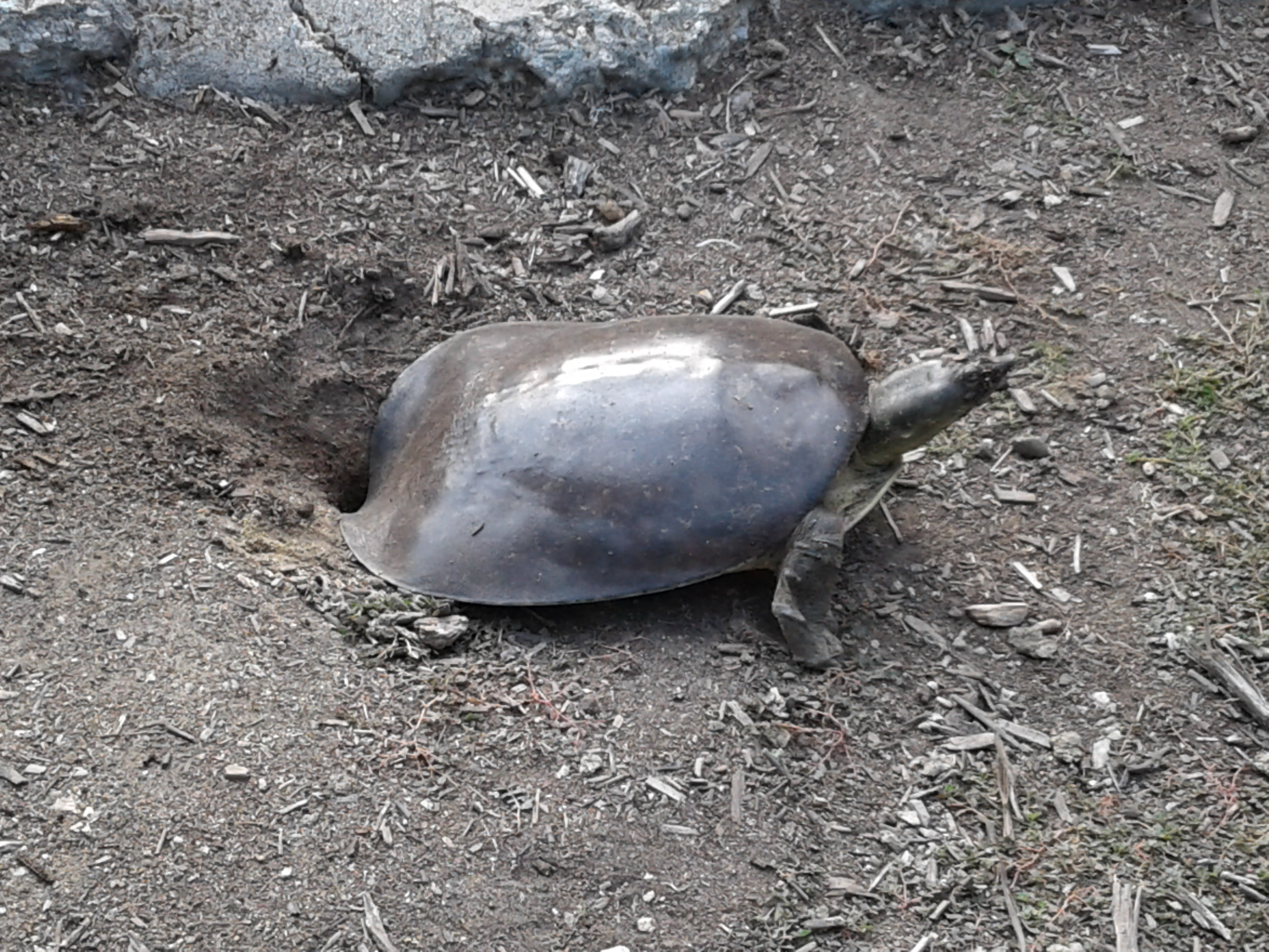 Softshell turtle laying eggs along the East side of Baldwin Lake.